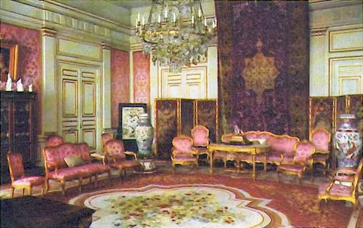 Postcard of Stockholm Palace: King's apartement - Salon, including the famous antique Kashan hunting carpet Jaktmattan on the wall